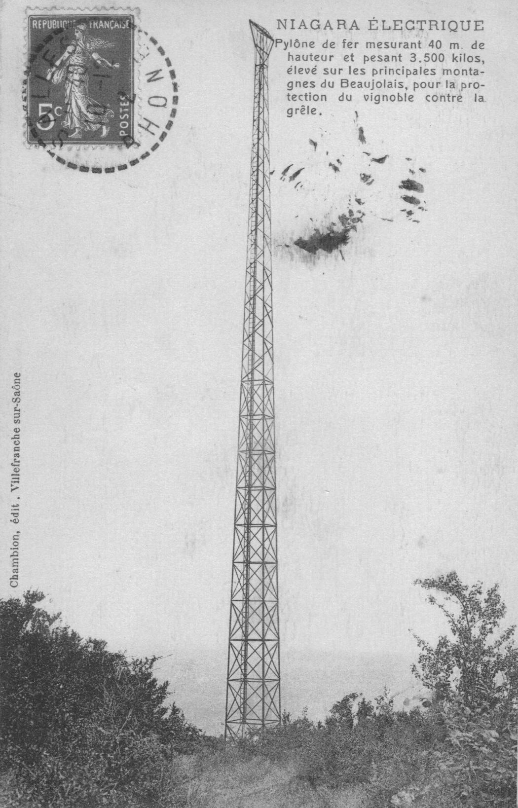 Monts du Beaujolais. "Niagara" electric, anti-hail system around 1910. Postcard